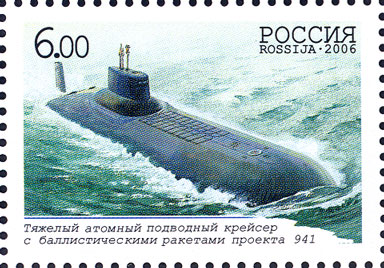 The 100th anniversary of the Russian Navy underwater forces. Ballistic missile submarine from project 941.